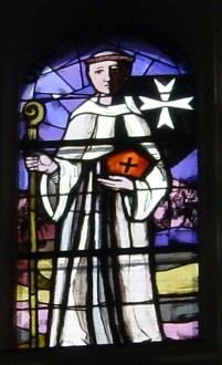 Otto Felix is the copyright owner of this photo and has authorize it use here. All rights released